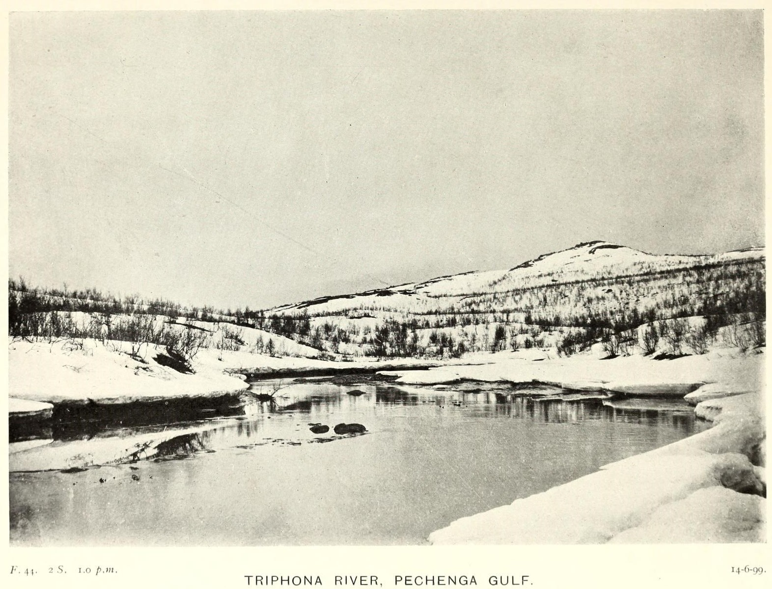 Three summers among the birds of Russian Lapland /